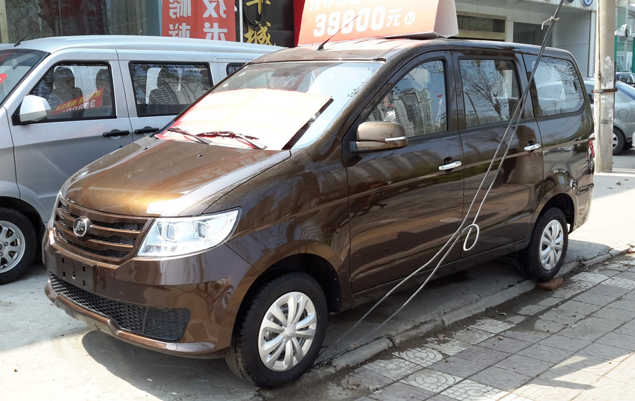 Lifan Lotto photographed in Xi'an, Shaanxi province, China.